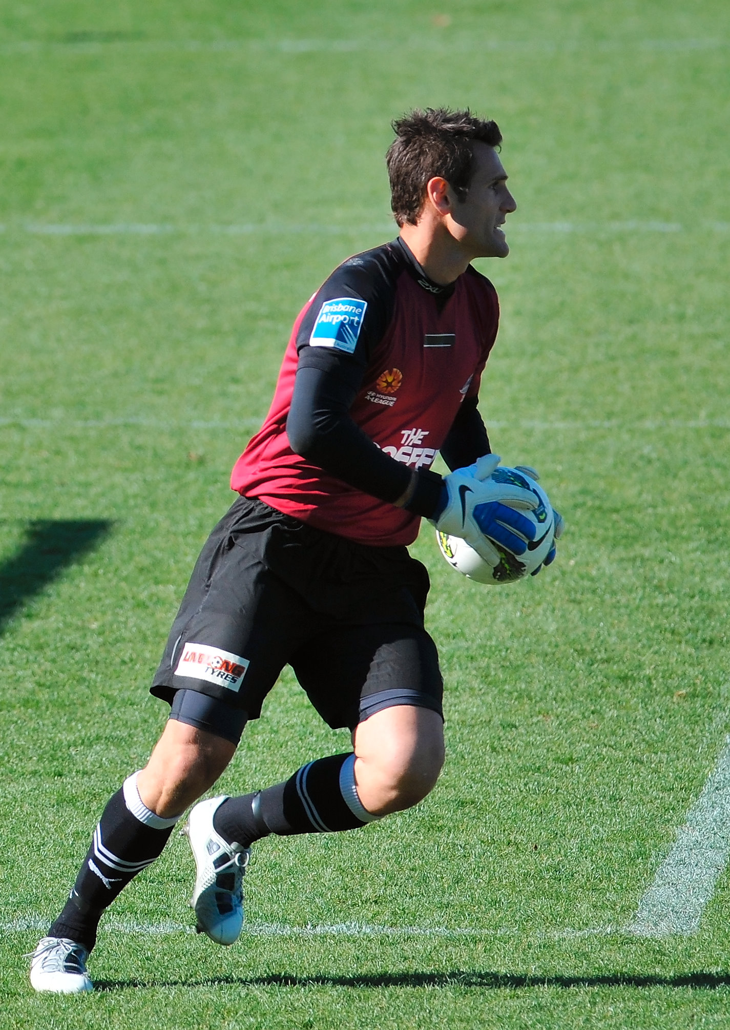 Michael Theoklitos of the Brisbane Roar Football Club. Playing as goal keeper at a pre-season match against the Melbourne Victory at Aurora Stadium, Launceston, Tasmania